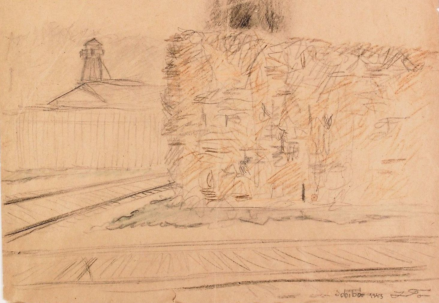 On the back of this drawing is written in Polish with pencil: "Camp Sobibor. A high fence of braided, dry branches hides the gas chambers from view. A branch of the railway leads to the camp. Only half of the wagons fit on it. The transport must be divided in two and the unloading takes 20 minutes."